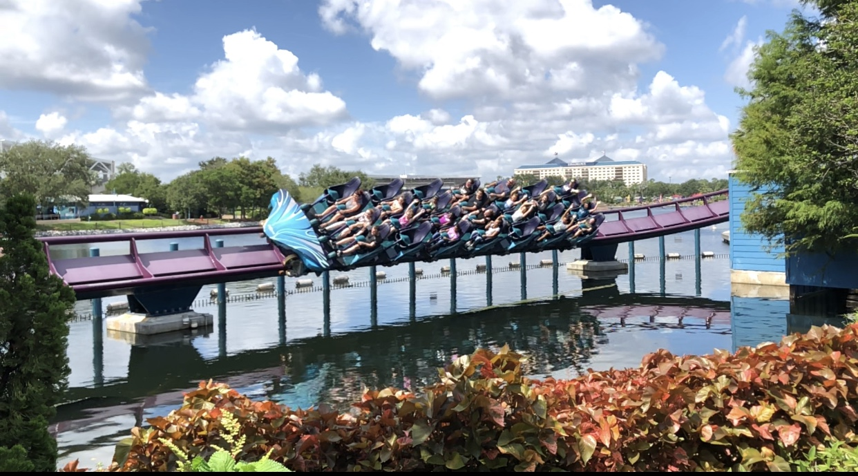 View of Mako's train as it traverses through the final turn of its layout.